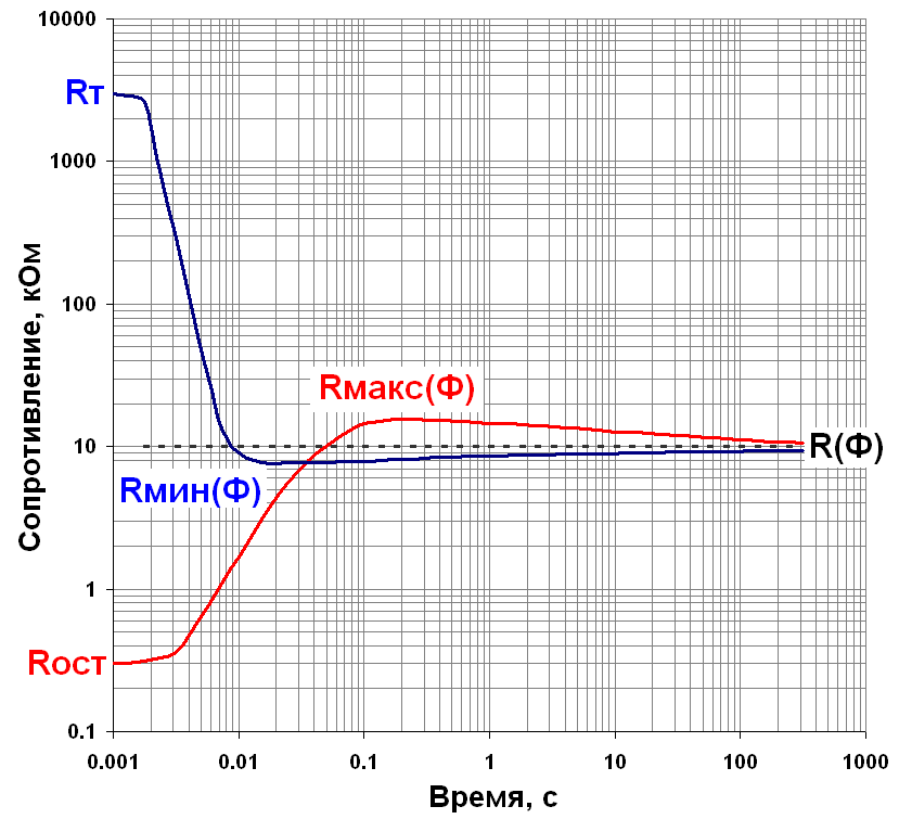 Переходные процессы в фоторезисторе при переходе из темного состояния (Rт) к промежуточной освещённости при переходе из полностью засвеченного (Rост) состояния к той же промежуточной освещенности По обеим осям - масштаб логарифмический !!